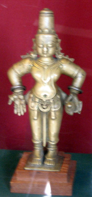 A bronze Vithoba from a home shrine, 18th-19th century, Chhatrapati Shivaji Maharaj Vastu Sangrahalaya